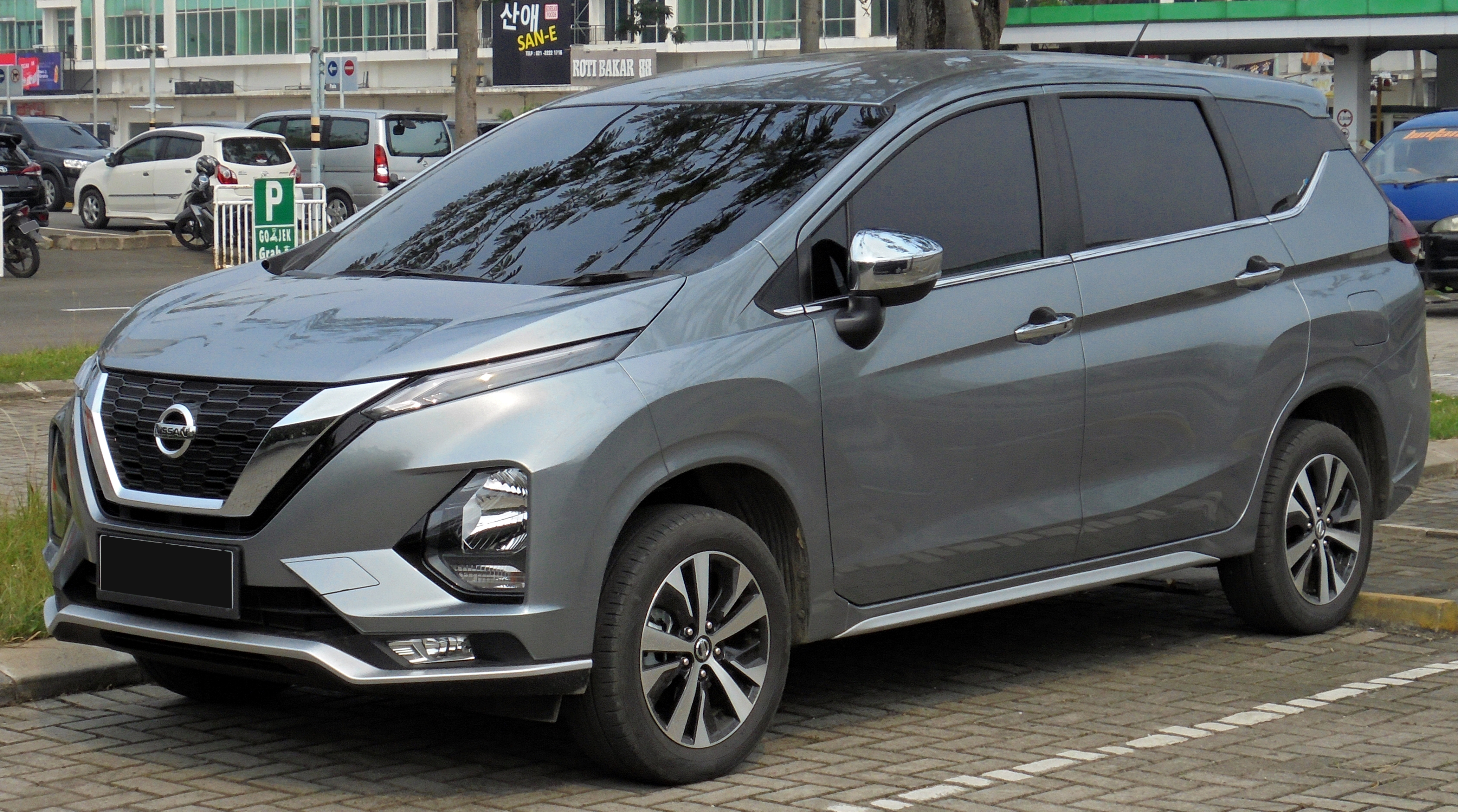 2019 Nissan Livina VL 1.5 (ND1W)